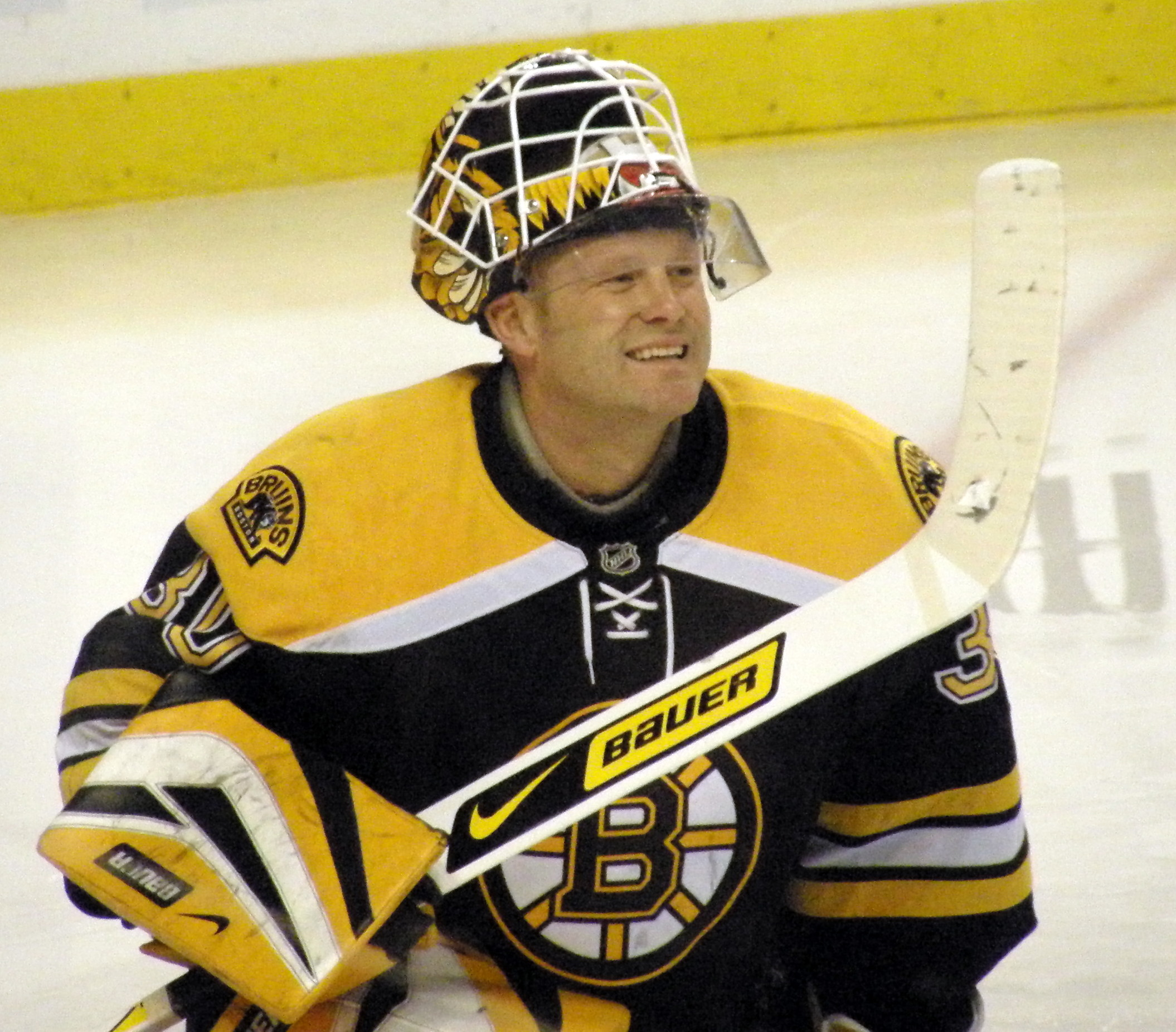 Goalie Tim Thomas, NHL Hockey player for the Boston Bruins